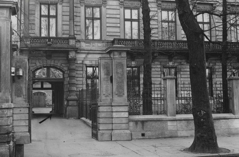 Foksal Street 3, Warsaw